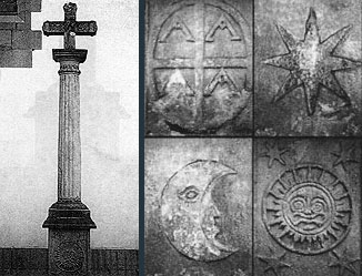 This is a picture of the Cross of Hendaye and then a picture focusing on the base of the base of the cross